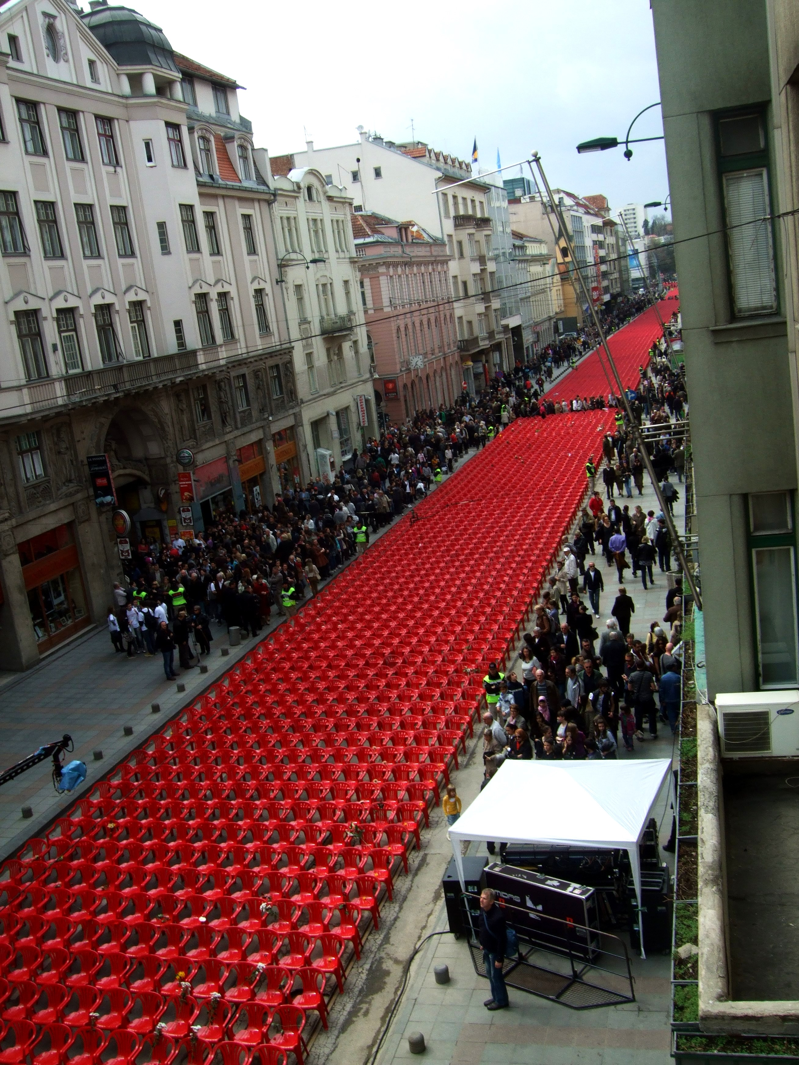 Sarajevo Red Line - chair installation used for the occasion of the 20th anniversary of Sarajevo Siege